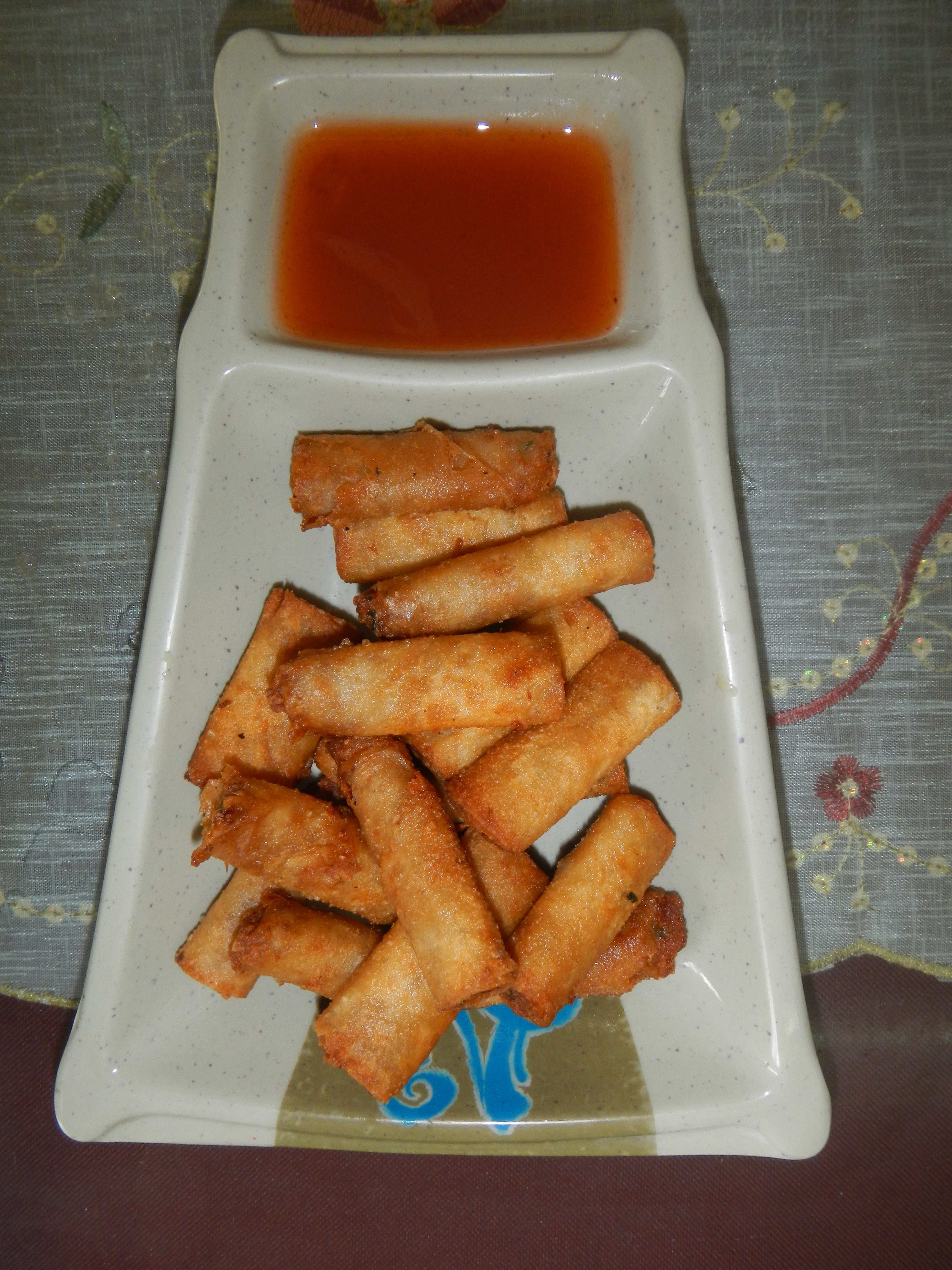 Lumpiang shanghai